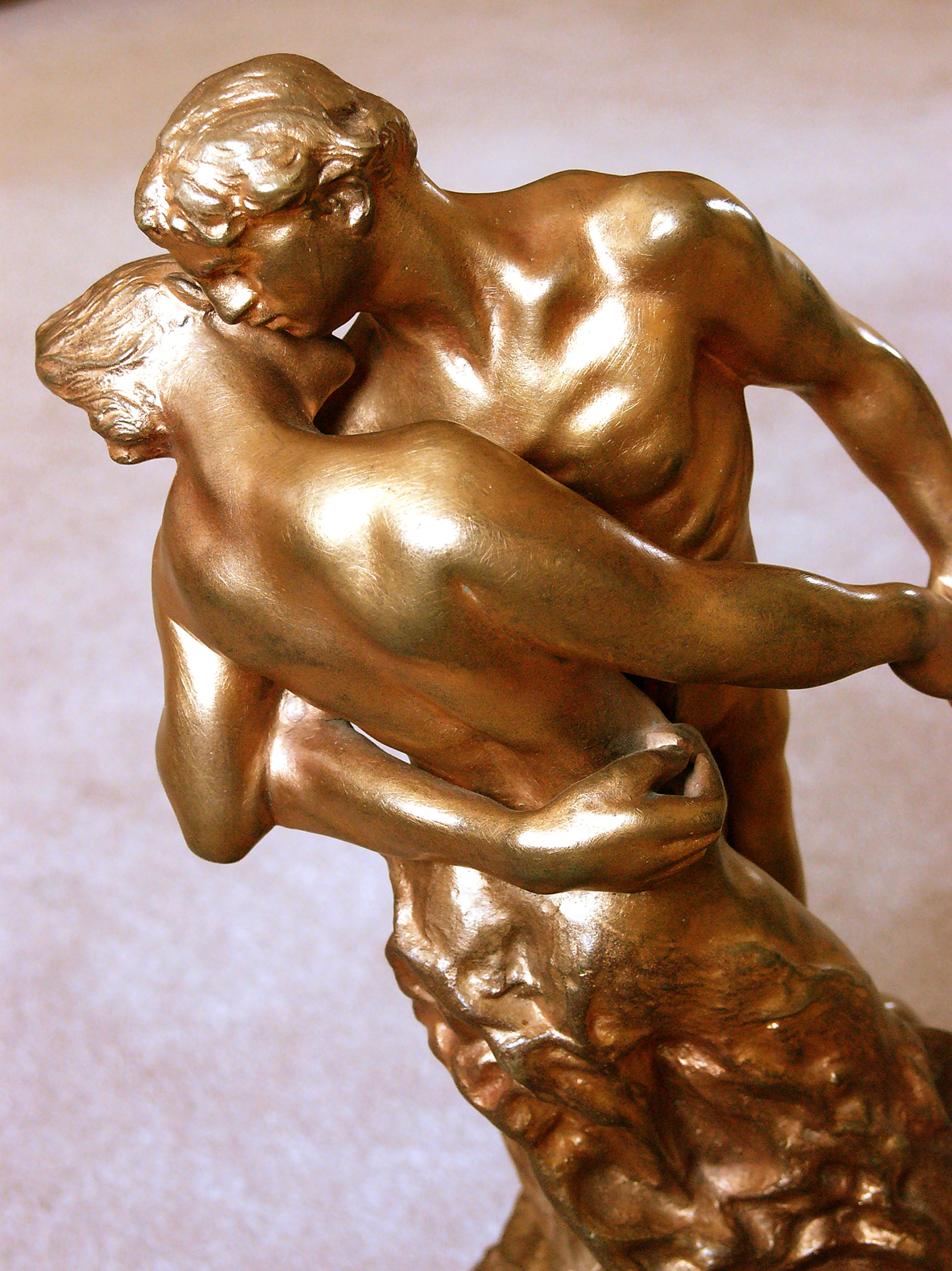 La Valse (The Waltzers): Created by Camille Claudel, protégé, muse and mistress of Rodin. Conceived in 1889 and cast in 1905 with the Foundry Mark "Eugene Blot". This is the first of these bronze casts and has a gilded patina.